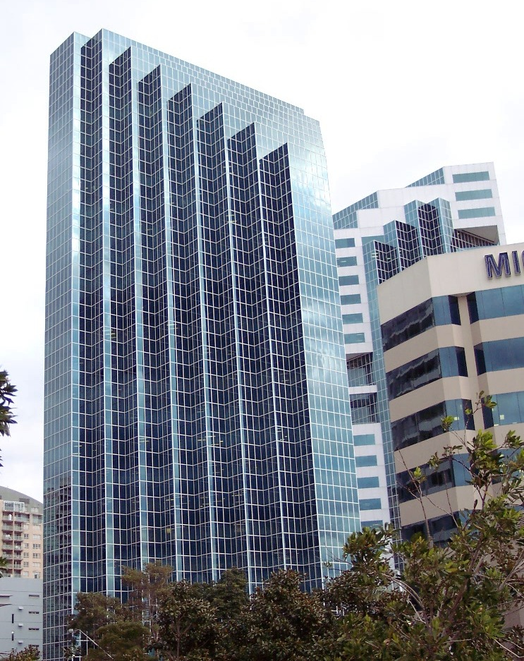 Zenith Centre